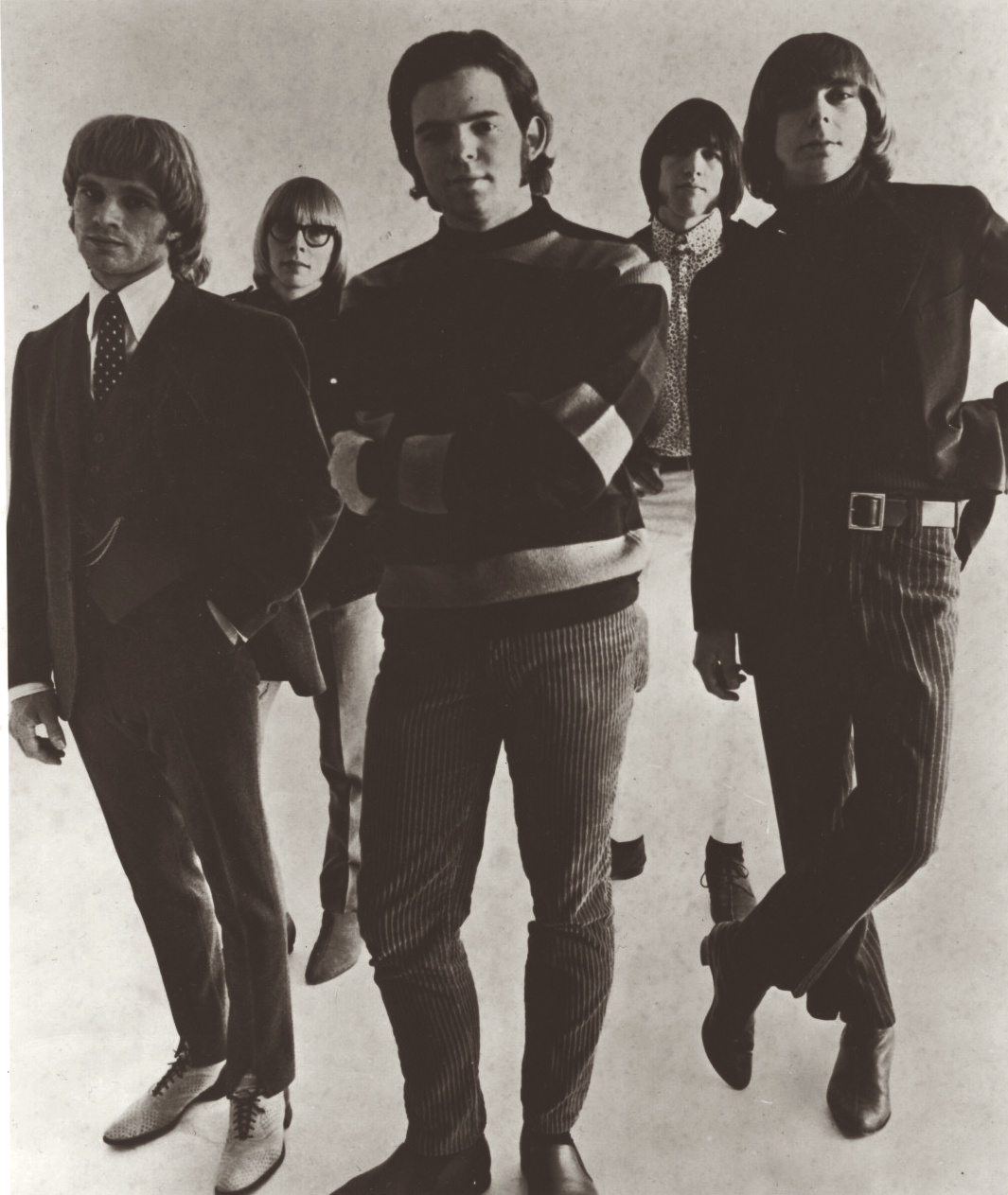 Publicity photo from B.J. Records